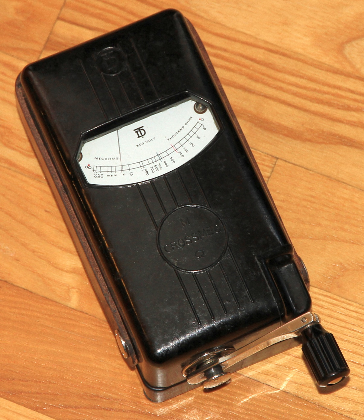 Dana-Tekno Crossmeg. Vintage Danish made insulation tester (Megger). Presumeably from around the 1950's.